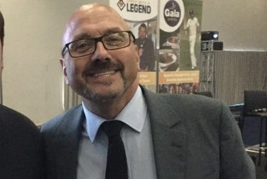 Photo taken by myself of Mark Clemmit on June 28 2018 at Edgbaston Cricket Ground.